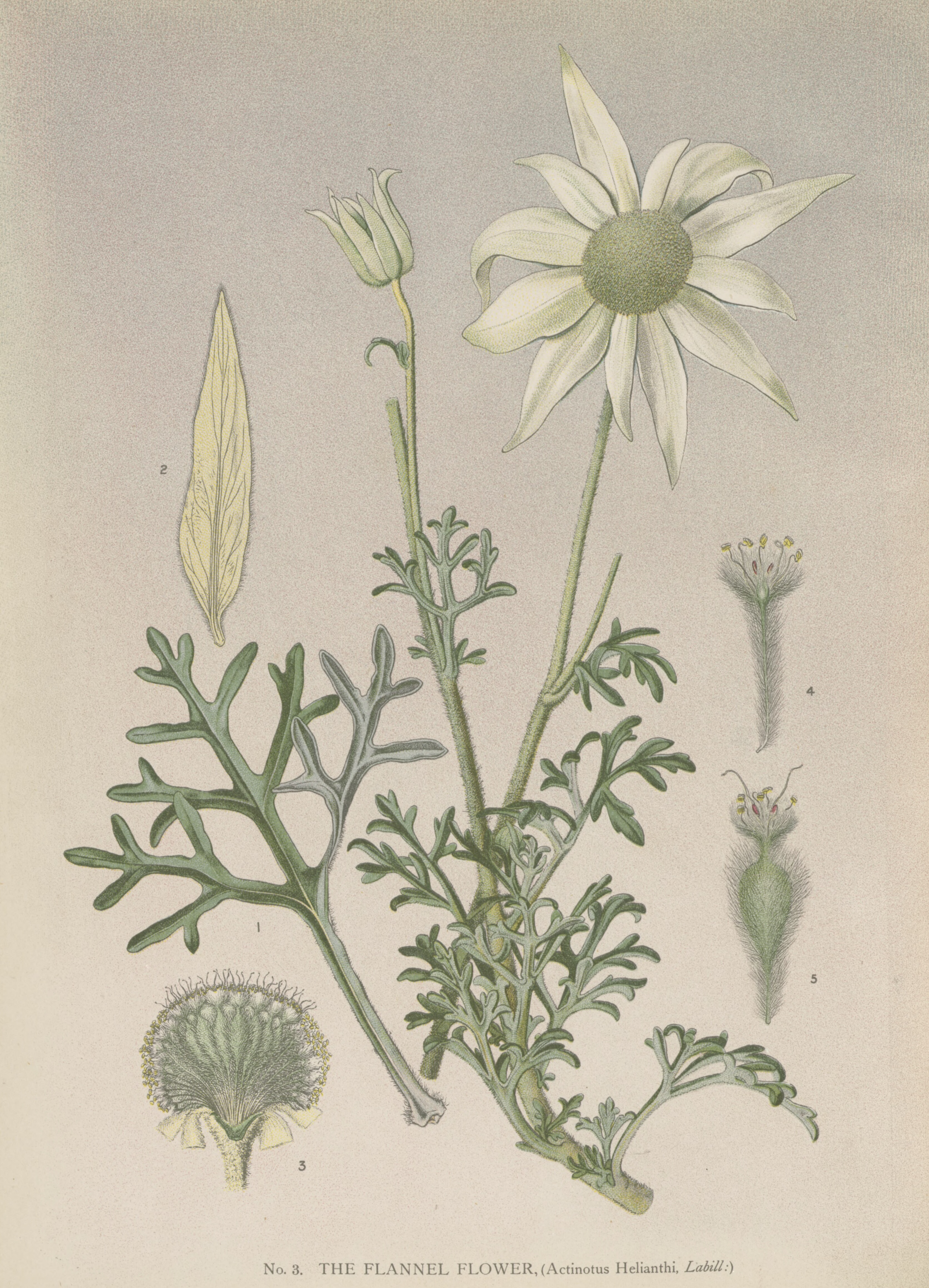 Actinotus helianthi (Flannel Flower) From: The Flowering Plants and Ferns of New South Wales - Part 1 (1895) by J H Maiden. NSW Government Printing Office.